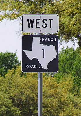 Route sign marking Ranch Road 1 in Texas